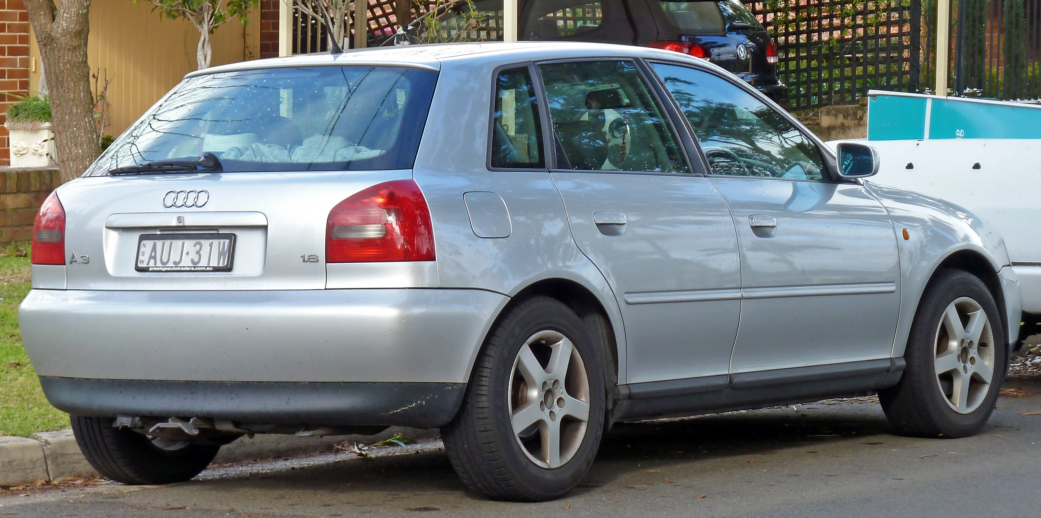 2000 Audi A3 (8L) 1.8 5-door hatchback. Photographed in Kangaroo Point, New South Wales, Australia.